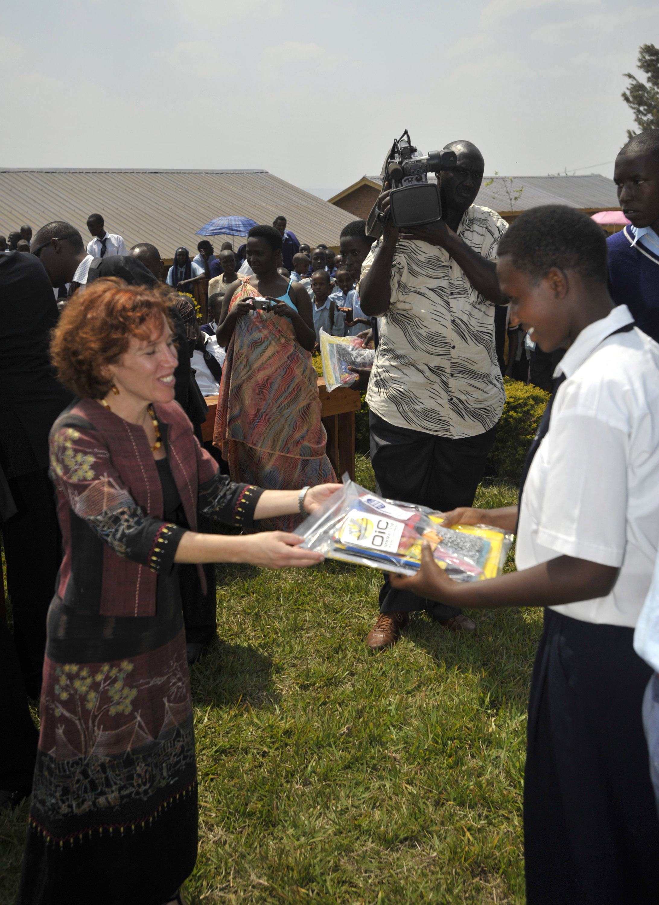 Chargé d’Affaires, U.S. Embassy to Rwanda Anne Casper hands one of the donated school packets to a student of the Masaka Secondary School at a dedication ceremony, July 9. Approximately 540 packets filled with paper, pencils, markers and other supplies were donated by People to People, a non-governmental organization. Rwanda Ministry of Education partnered with the U.S. Embassy of Rwanda and Combined Joint Task Force-Horn of Africa, Djibouti, to significantly upgrade and expand the suburban Kigali school with a refectory (dining hall/kitchen/store room), teacher’s lounge, 12-stall latrine, a sports field, expanded class rooms and much-needed furniture.